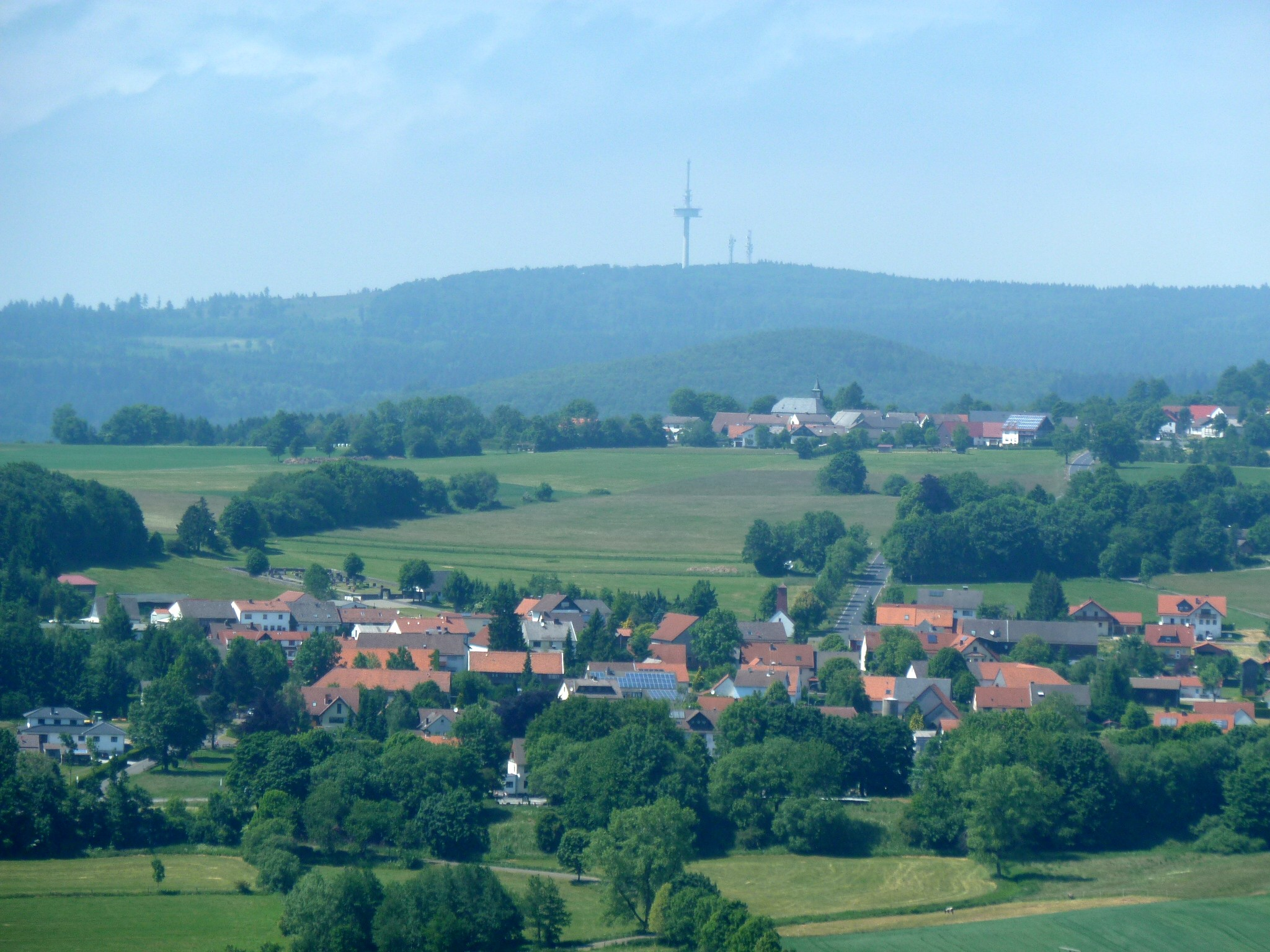 View from Turbine No. 7 in the "Windenergiepark Vogelsberg" wind farm near Hartmannshain (Hesse, Germany). Hartmannshain lies in the foreground. Herchenhain and the Hoherodskopf (with telecommunications tower) are visible in the background.